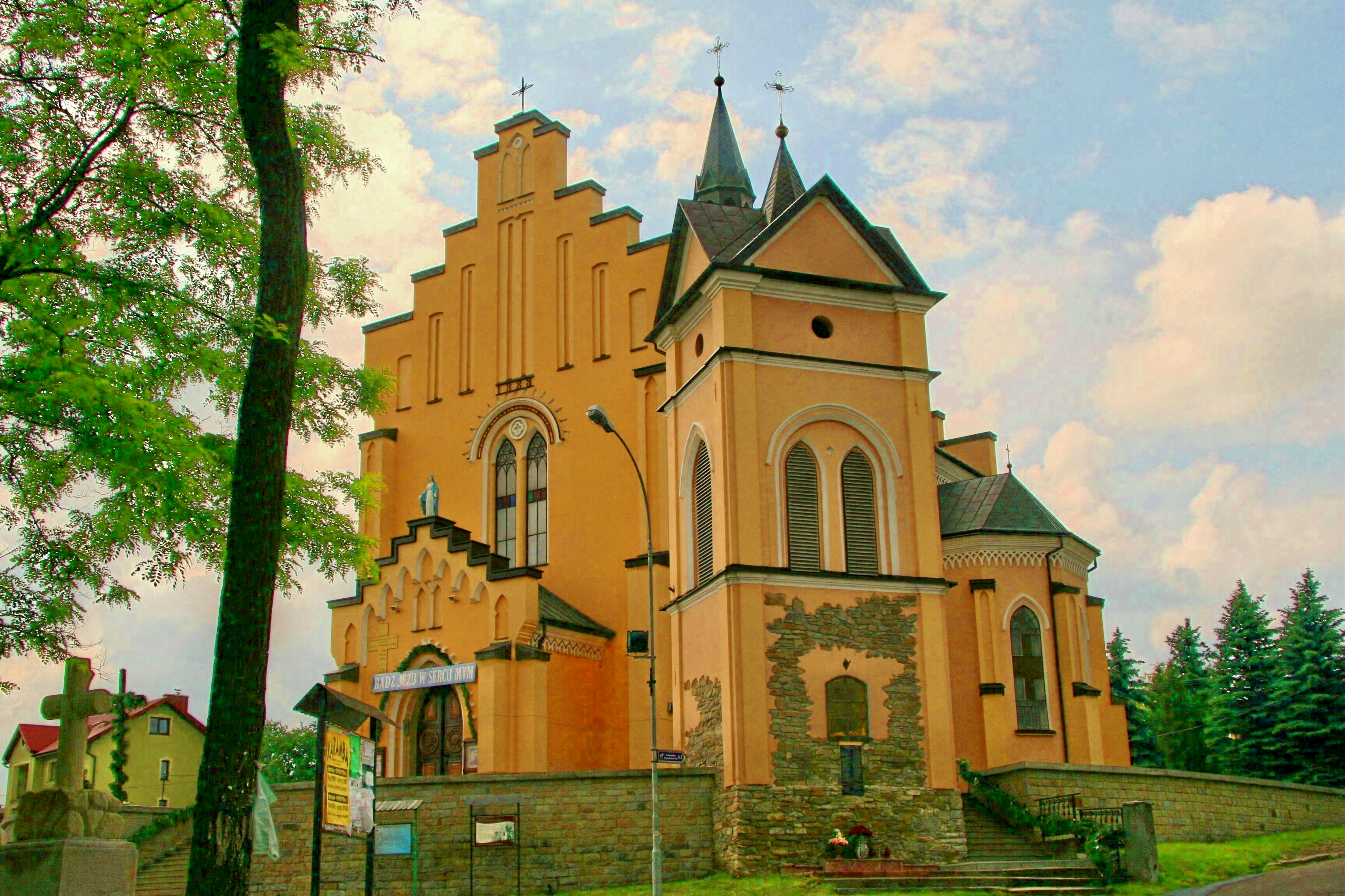 Roman Catholic church in Bukowsko, Poland